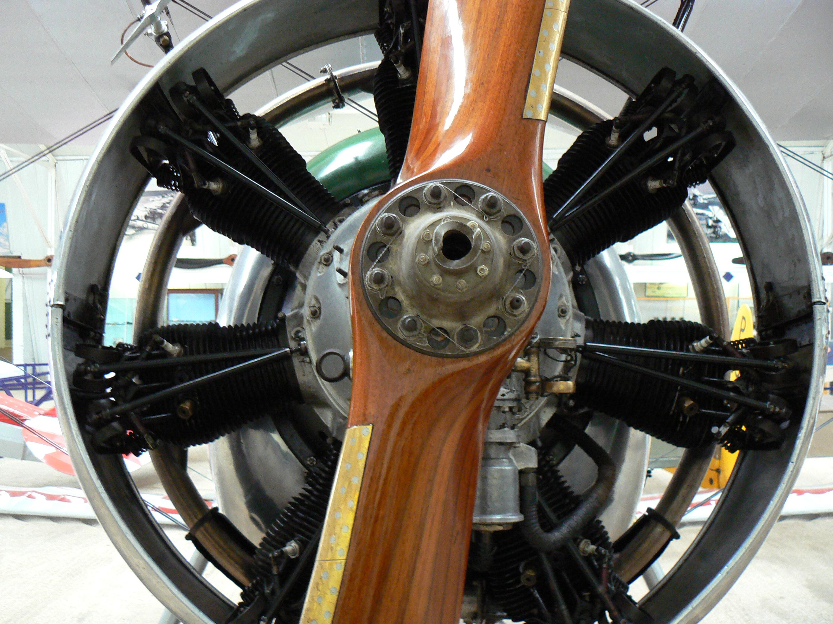 1931 Avro Shuttleworth Collection